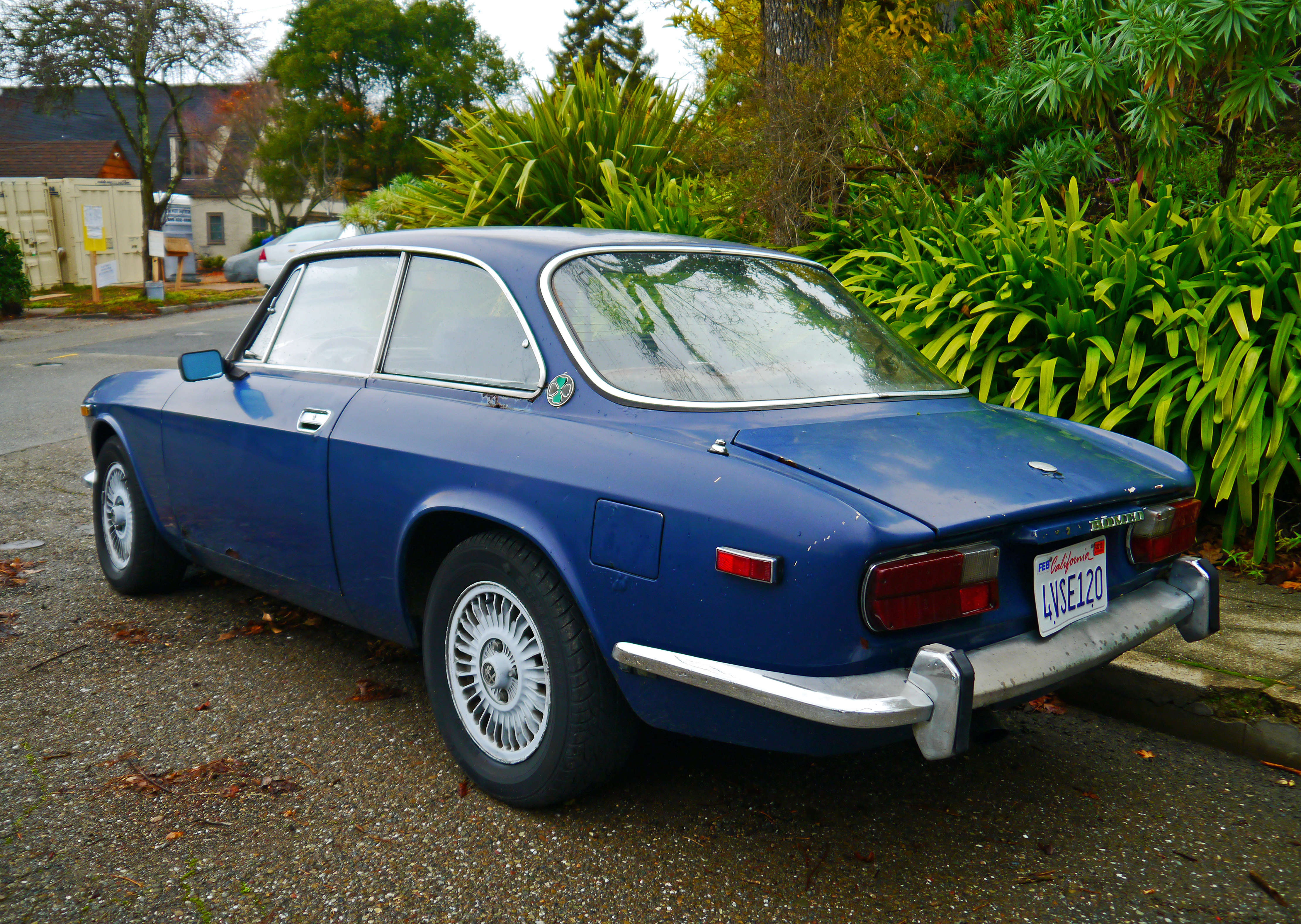 1971–1976 Alfa Romeo 2000 GT Veloce. 4-cylinder 1962 cc engine (97 kW; 130 hp).